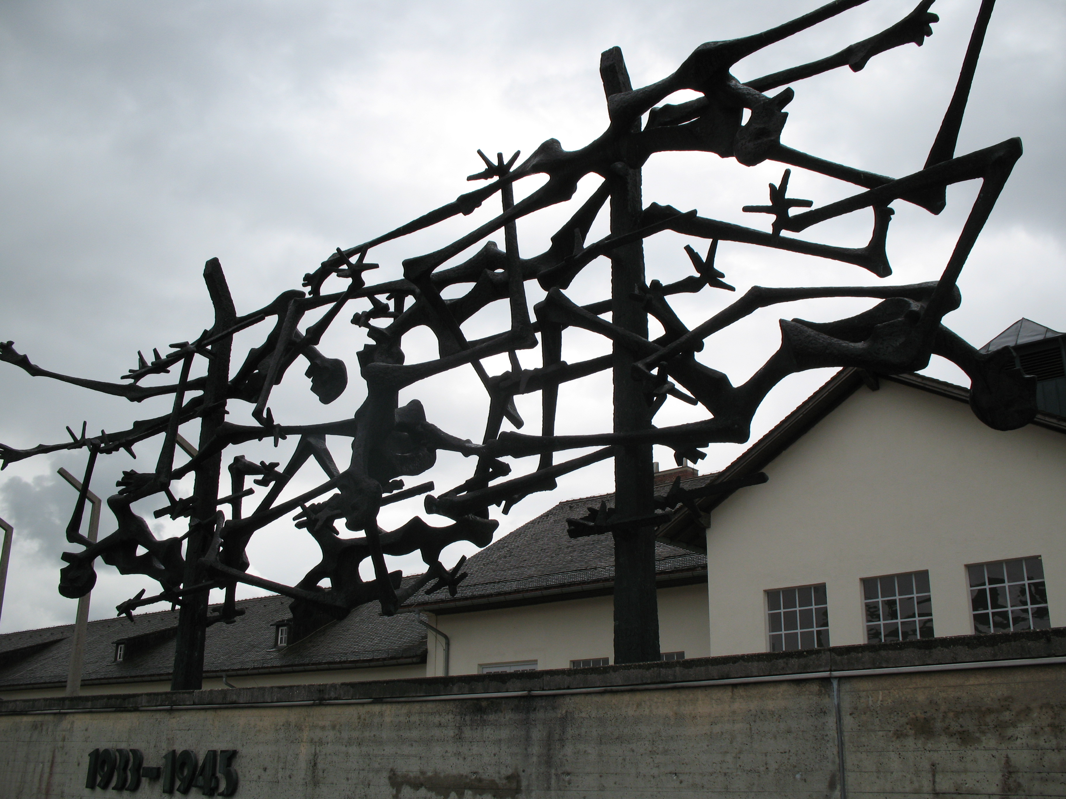 Holocaust Monument, Dachau Concentration CampDachau, Germany - Google Maps - Google Earth